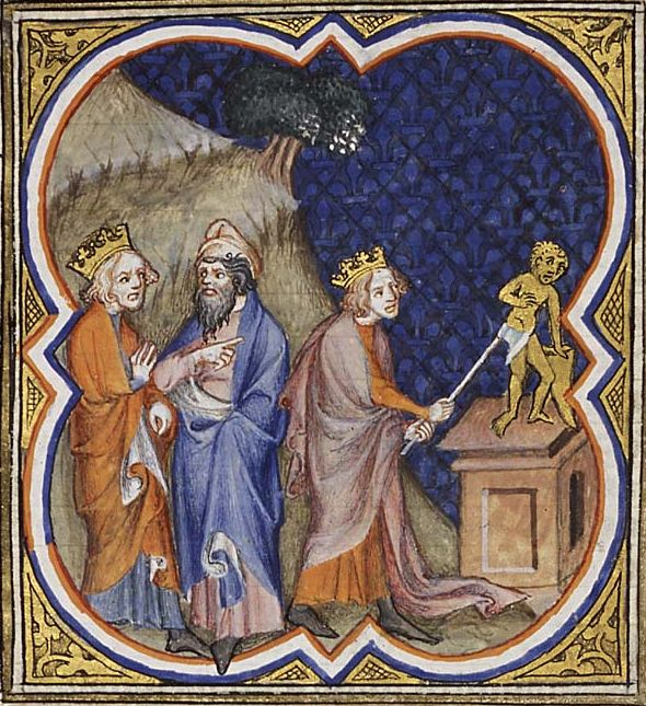 Asa destroys the idols and forbids worship in local shrines